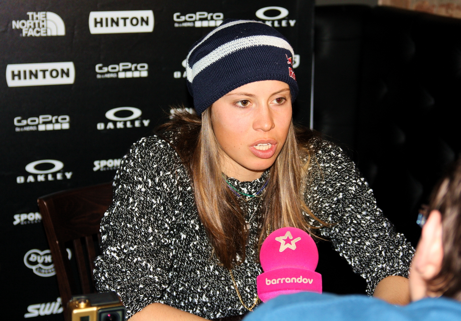 Czech snowboarder Eva Samková.